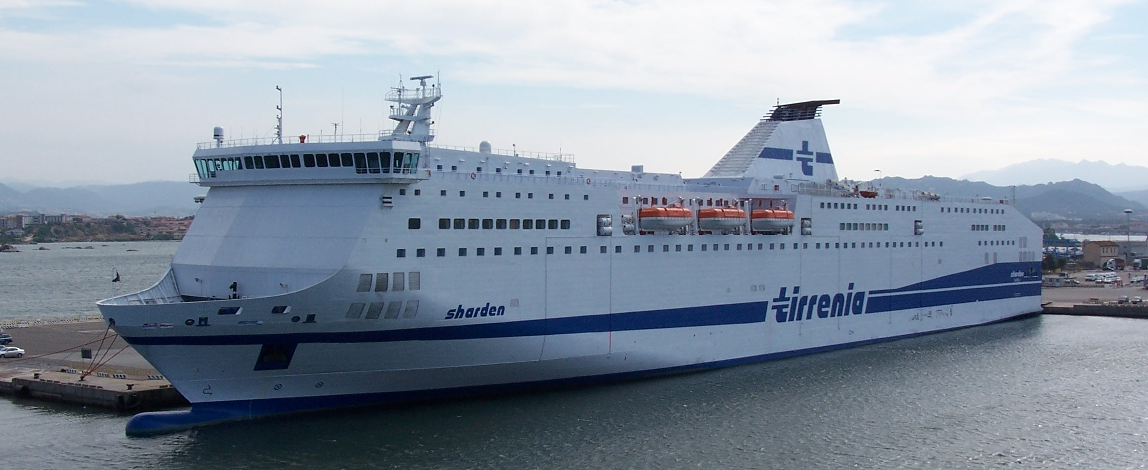 M/S Sharden (Tirrenia di Navigazione) into Olbia arbour IMO Number: 9305269 MMSI Number: 247130700 Callsign: IBLN Length: 220 m Beam: 37 m